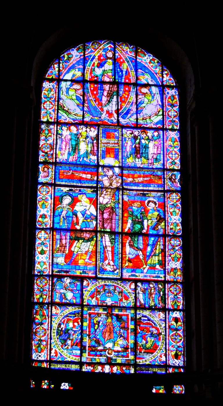 Medieval art, France, Poitiers Cathedral, stained glass.